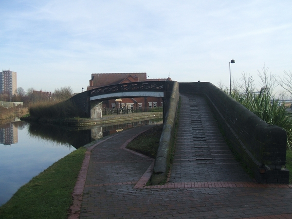 Bentley Canal Bridge. This cast iron canal bridge is over the closed arm of the Bentley Canal (right). The main canal is the Wyrley and Essington Canal.